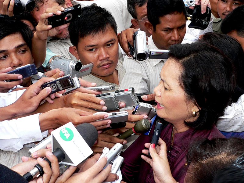 Mu Sochua, after receiving a verdict by Phnom Penh Municipal Court